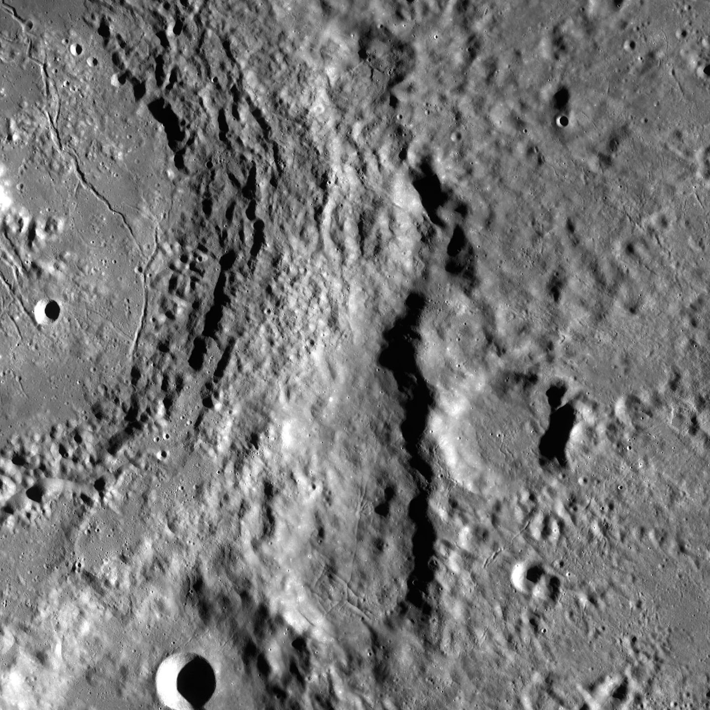 Lunar crater Palitzsch (below) and Vallis Palitzsch — a valley, running from it to the north. It ends with a small crater Petavius D near the upper border of the image. Crater to the right from the center is Palitzsch A; part of big crater Petavius is seen in the upper left. Mosaic of photos by Lunar Reconnaissance Orbiter, made with Wide Angle Camera. Size of the image is 170×170 km, north is up.